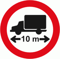 Diagram of road signs of Luxembourg